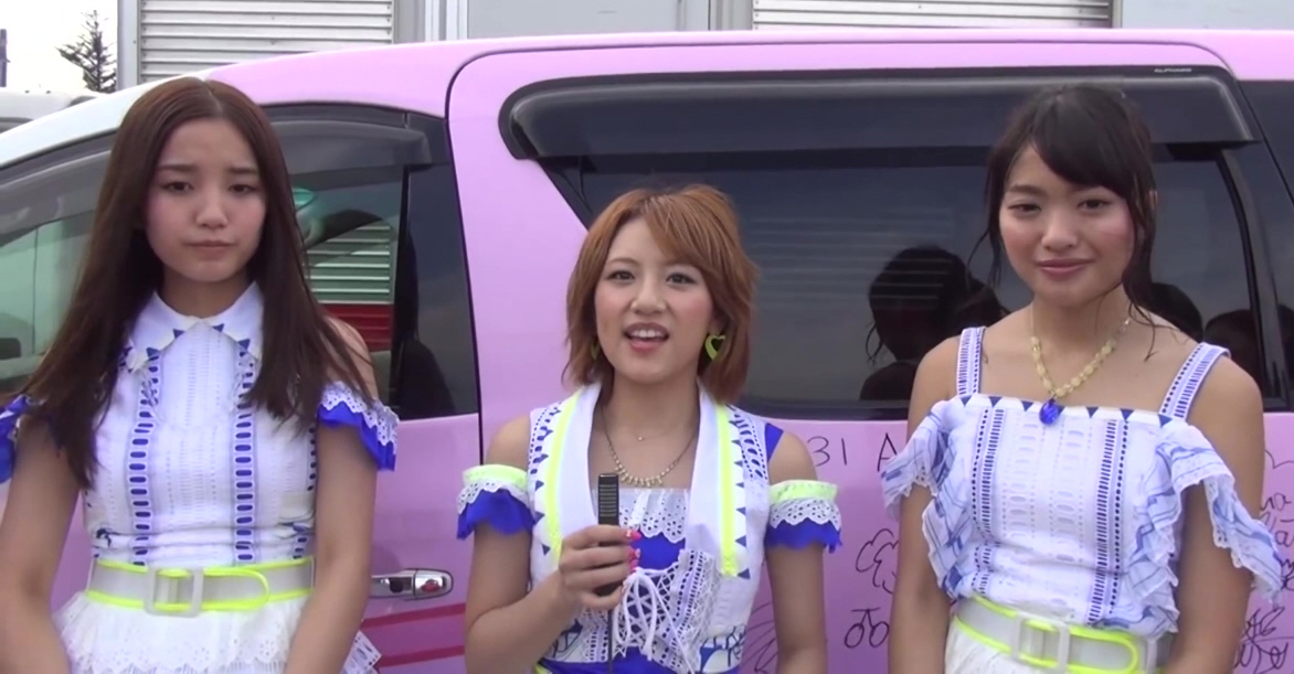 AKBが大熊の小学校に来た 恋するフォーチュンクッキー